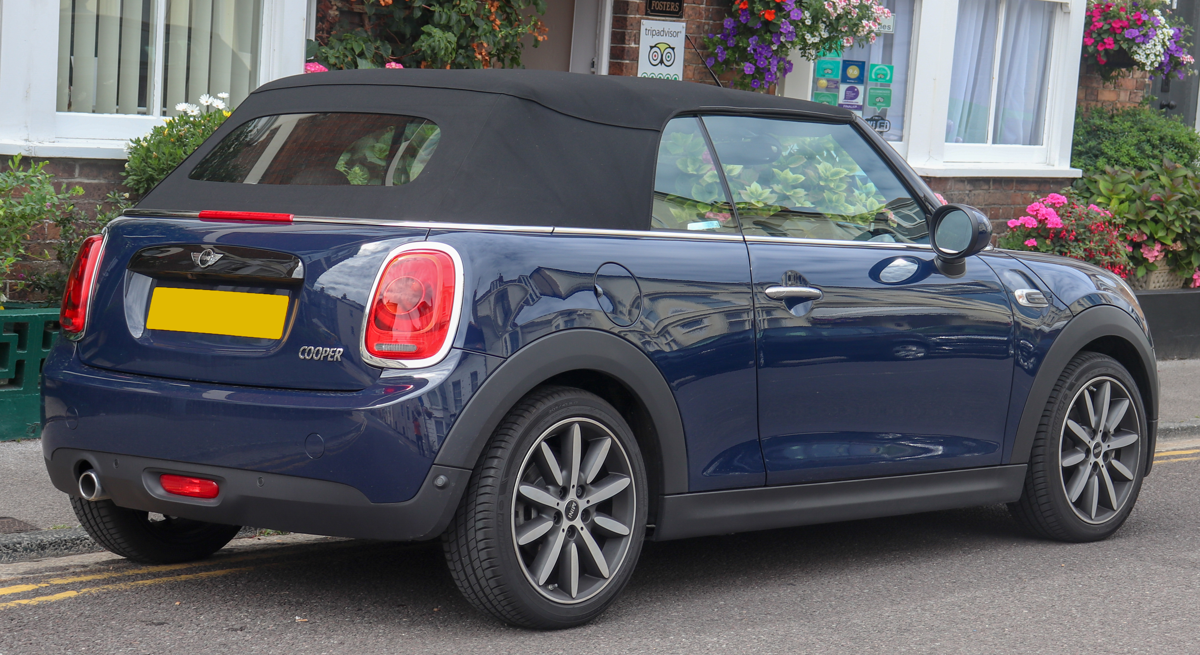 2018 Mini Cooper Automatic Convertible 1.5 Rear Taken in Weymouth, Dorset